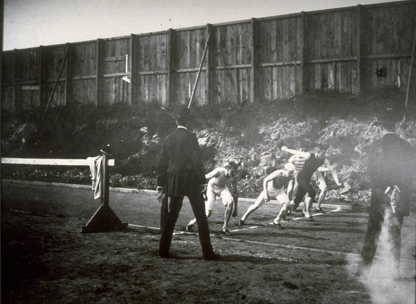 Photograph of sprinter Fred Bonine competing at the 1885 Intercollegiate Championships. Final heat of the Intercollegiate Association Championships at Manhattan Athletic Club grounds, 1885. Left to right: Bonine - Michigan, Dericskon - Columbia, Baker - Harvard, Holden - Harvard, Mapes - Columbia.